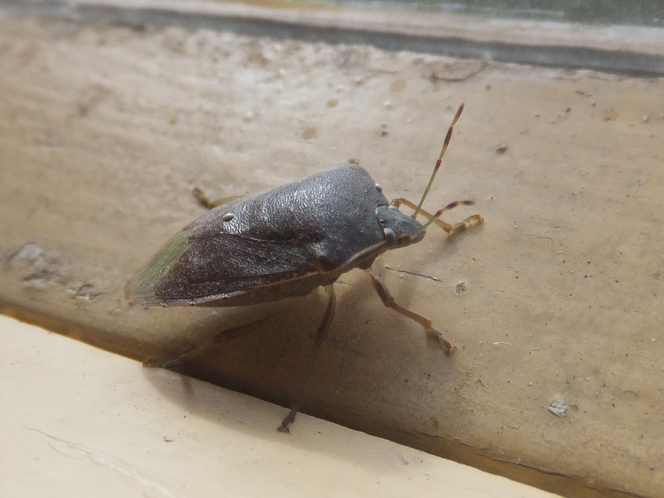 A green shield bug (Nezara viridula) photographed in Piazzo (Segonzano, Italy); two eggs, laid by a parasitic tachinid fly, can be seen on its mesoscutellum and prothorax.